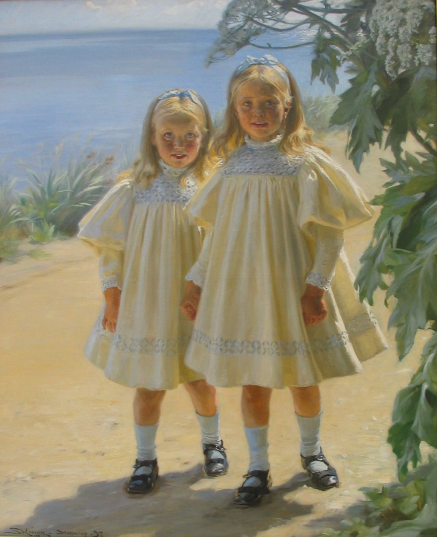 Portrait of Alfred Benzon's two daughters, Else and Hanne.